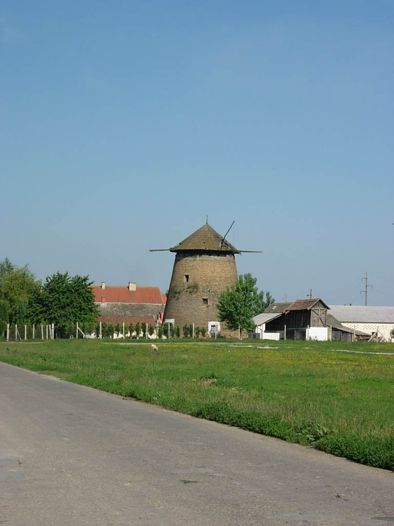 Windmill without blades in Čurug.